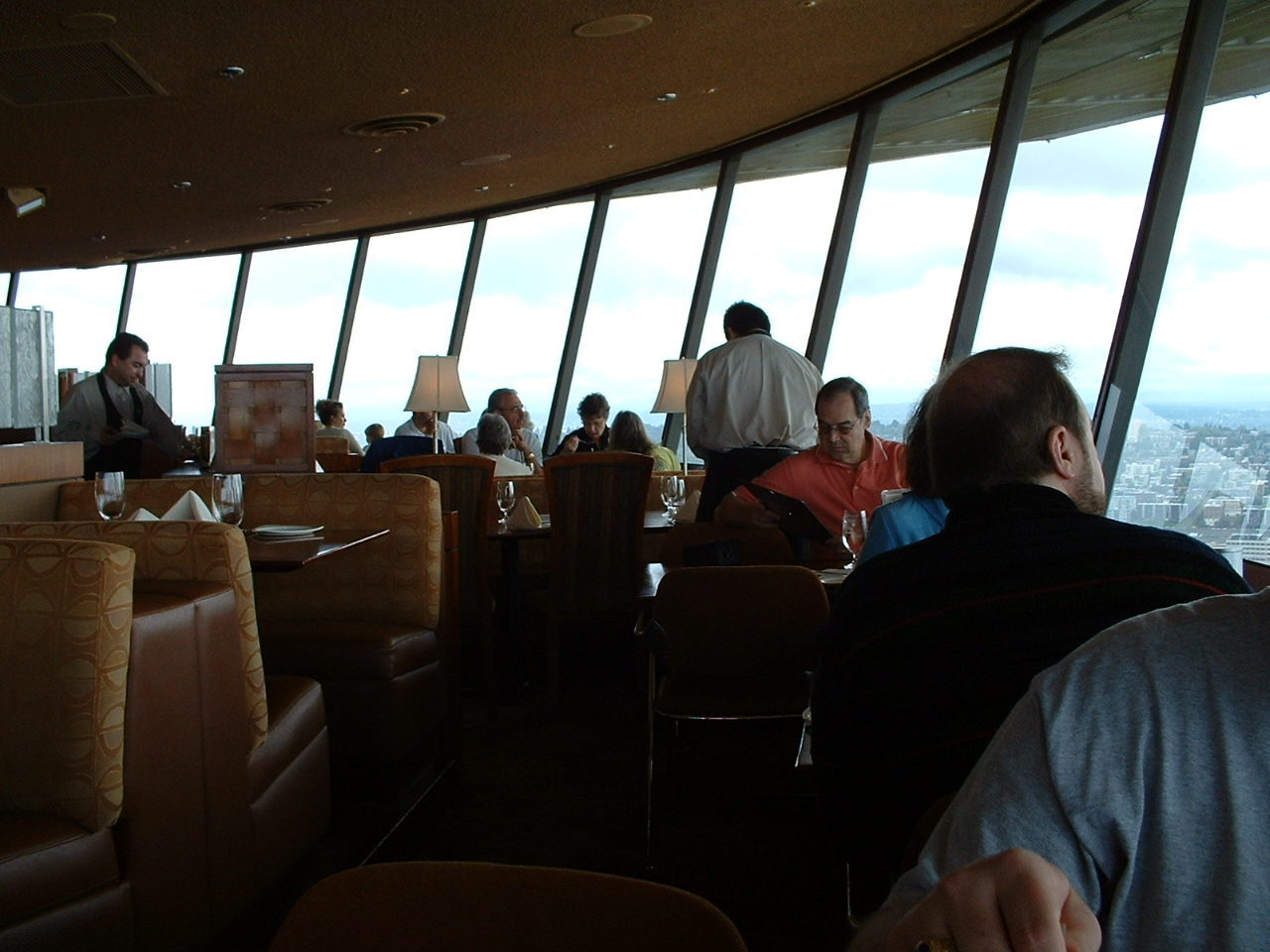 Sky City in Seattle, 2006.